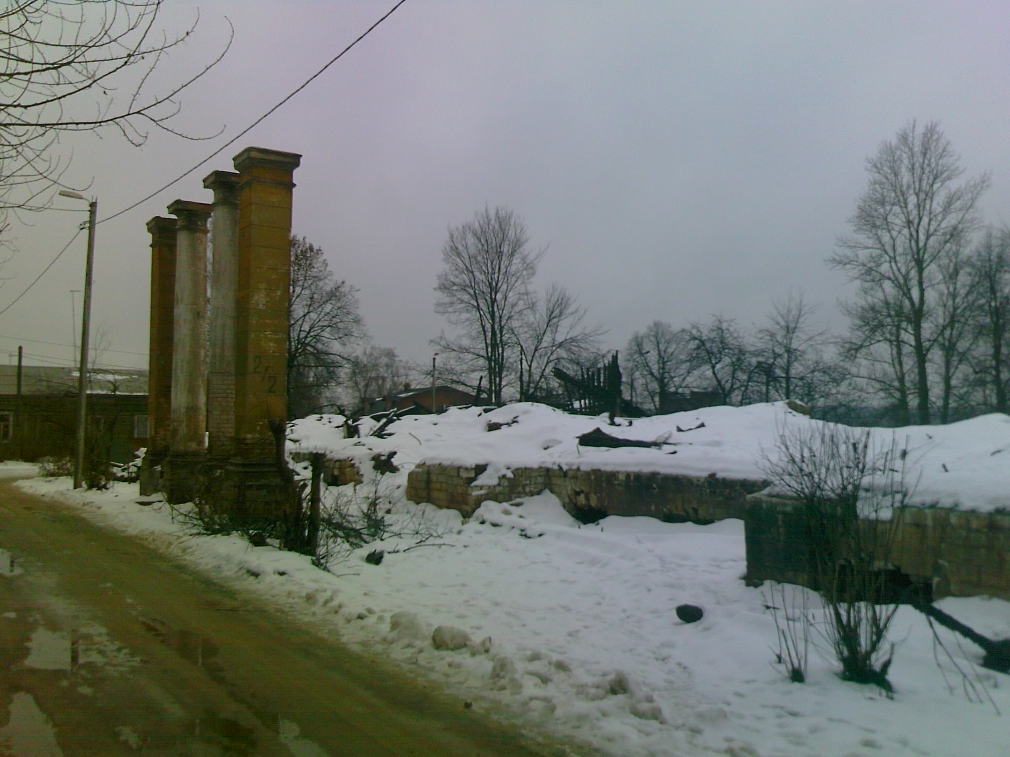 View of ruins of former historic building of late 19 century, after the fire happened July 10, 2011, in Kraskovo (near Moscow, Russia)